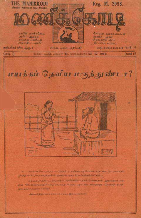 Frontpage of the Tamil Magazine, Manikodi dated 03 December 1934. This magazine gave birth to a literary movement of the same name. Pudumaippithan, B. S. Ramaiya, Ku. Pa. Rajagopalan and Va. Ramasamy were some of the big names in the Manikodi movement. This particular scan is taken from Pollachi Nasan's collection